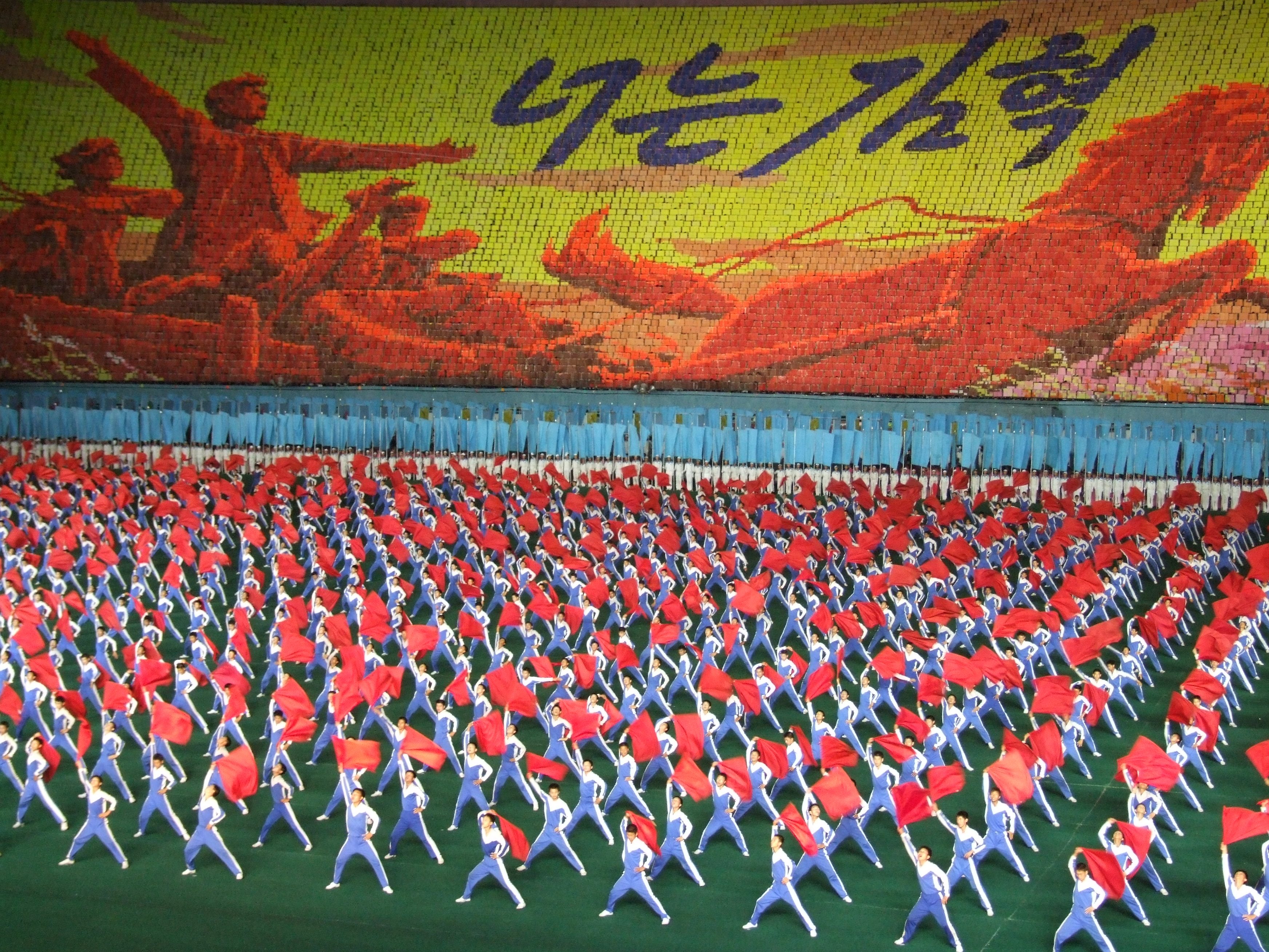 Arirang Mass Games